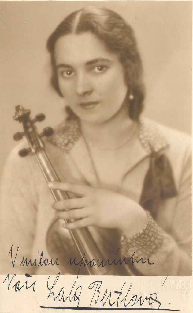 Ludmila Bertlová was a Czech concert violinist and the first wife of the conductor and composer Rafael Kubelík. Photograph: Renate Spitzner (Musical circle Spitzner).